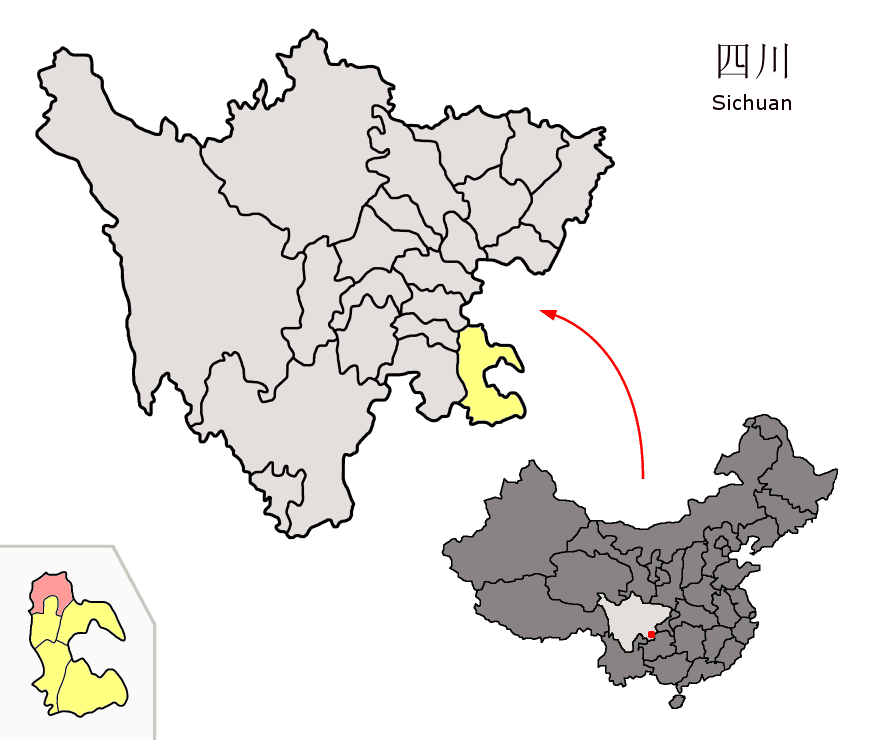 Location of Lu County (pink) and Luzhou Prefecture (yellow) within Sichuan province of China Map drawn in october 2007 using various sources, mainly : Sichuan province administrative regions GIS data: 1:1M, County level, 1990 Sichuan Counties map from